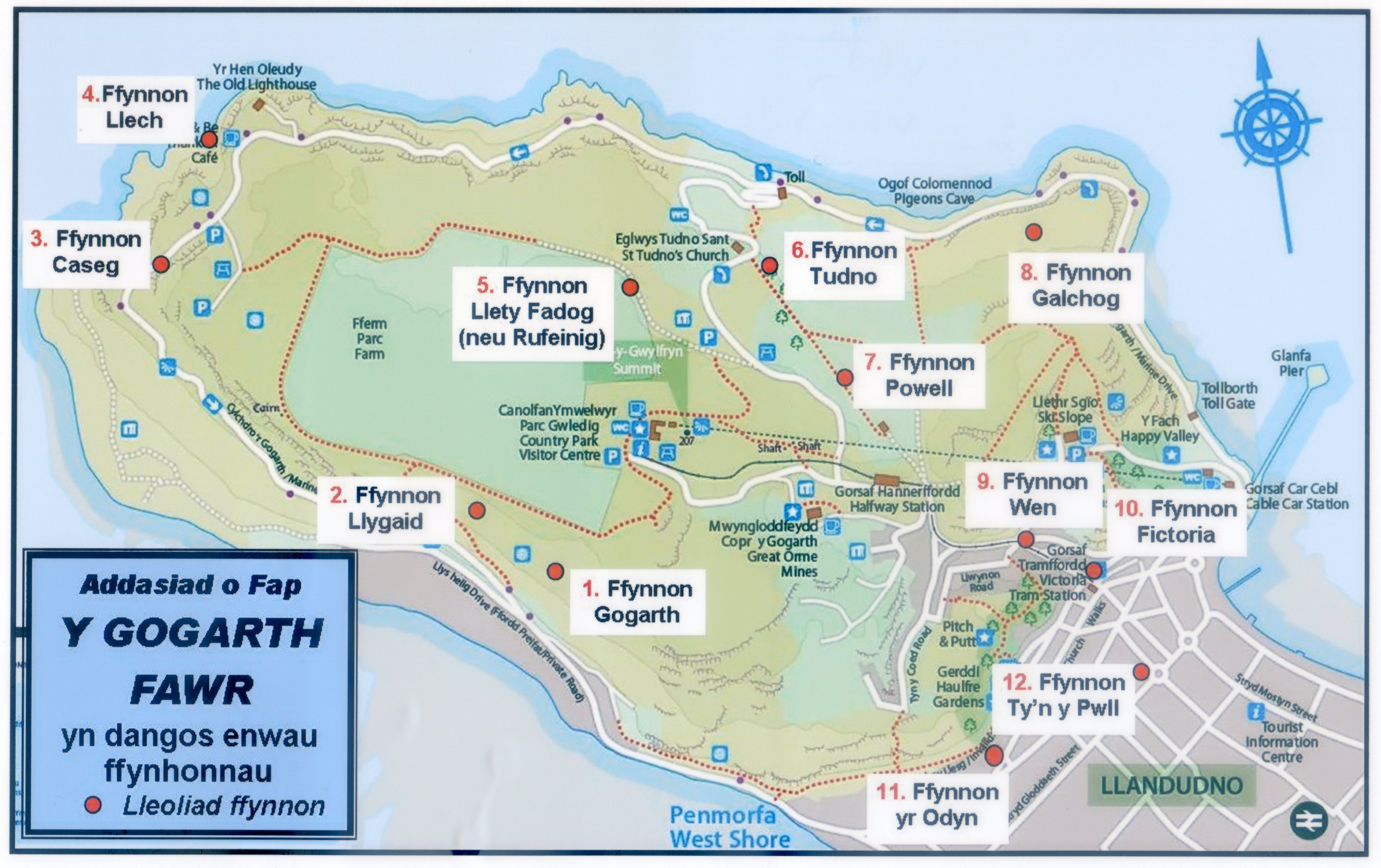 Map showing the locations of various wells on Llandudno's Great Orme